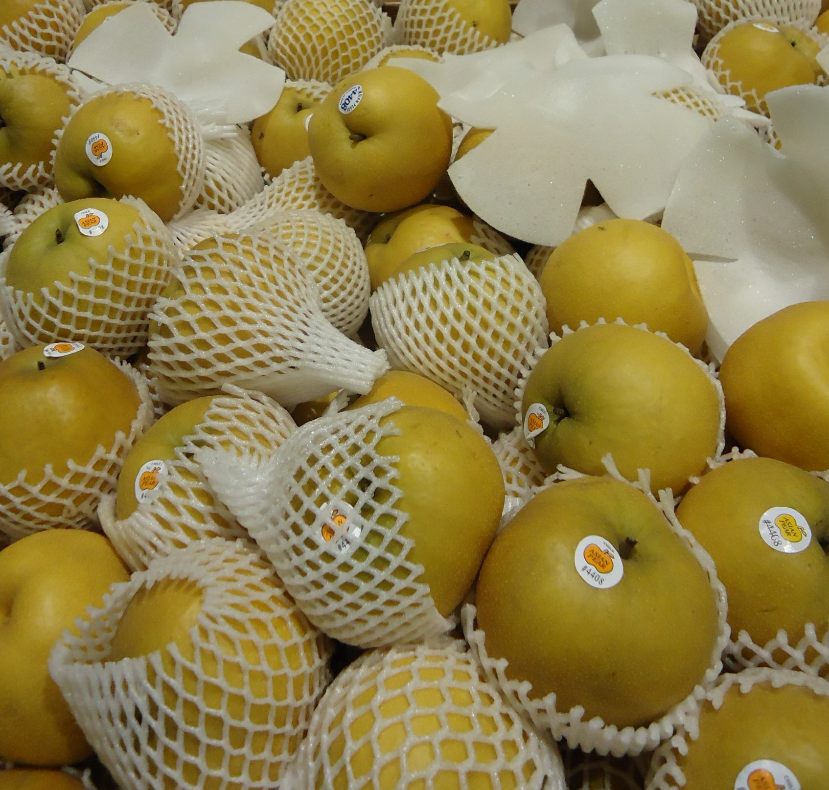 Asian pears as seen in an Asian supermarket in New Jersey.